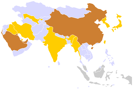 Countries Football Best Result in Asian Games